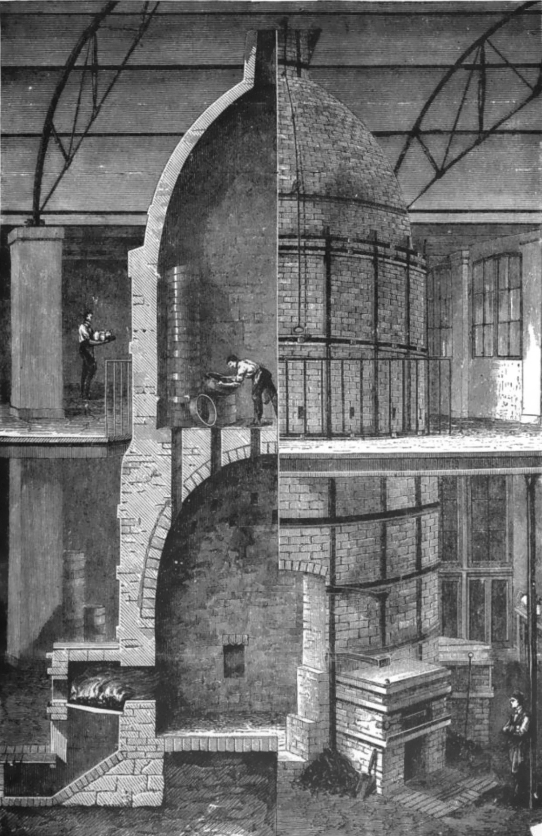 An illustration of a porcelain kiln at Sèvres, France.